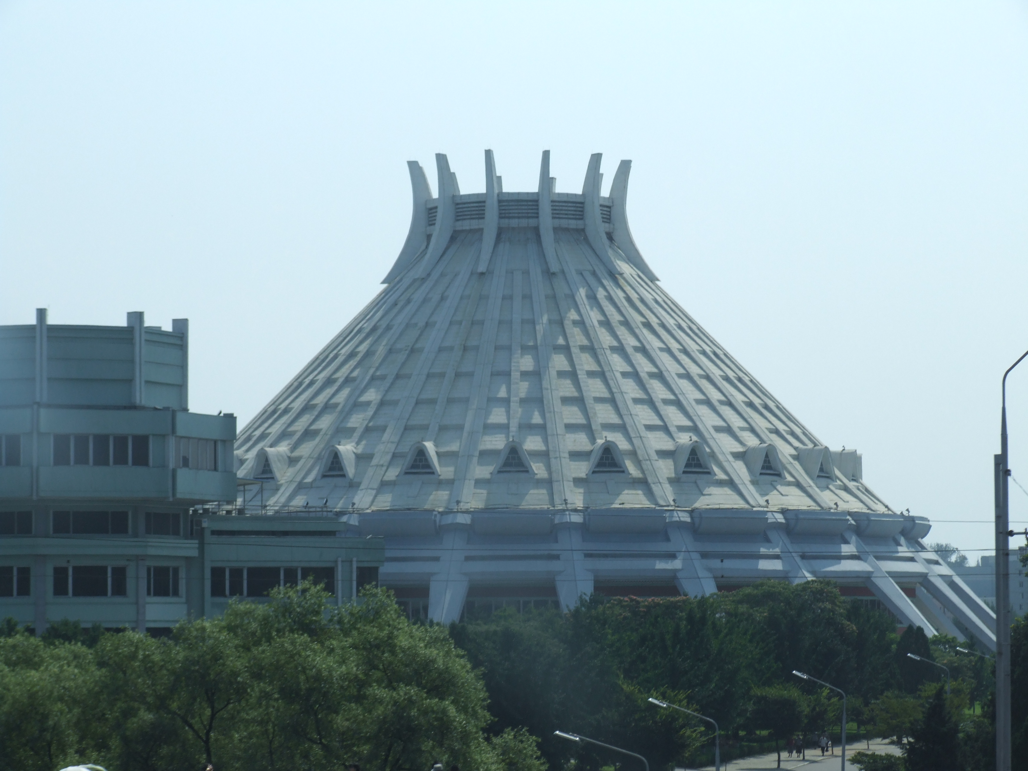 Ice rink in Pyongyang